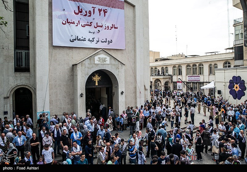 Armenian Genocide Memorial Demonstration - Tehran 2017